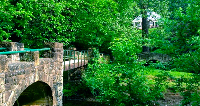 A couple of the footbridges across Four Pole Creek in Ritter Park, on May 17, 2013.